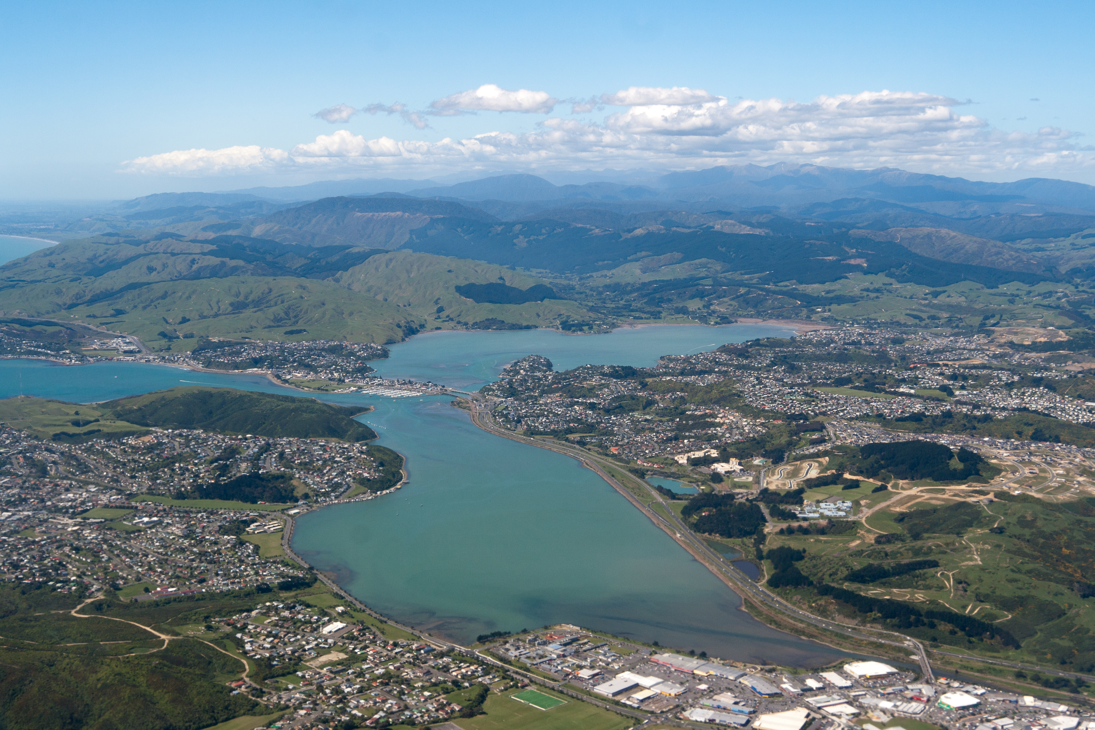 Aerial view of both arms of the Porirua Harbour (Porirua Inlet in foreground, Pauatahanui Inlet behind), near Wellington, New Zealand.